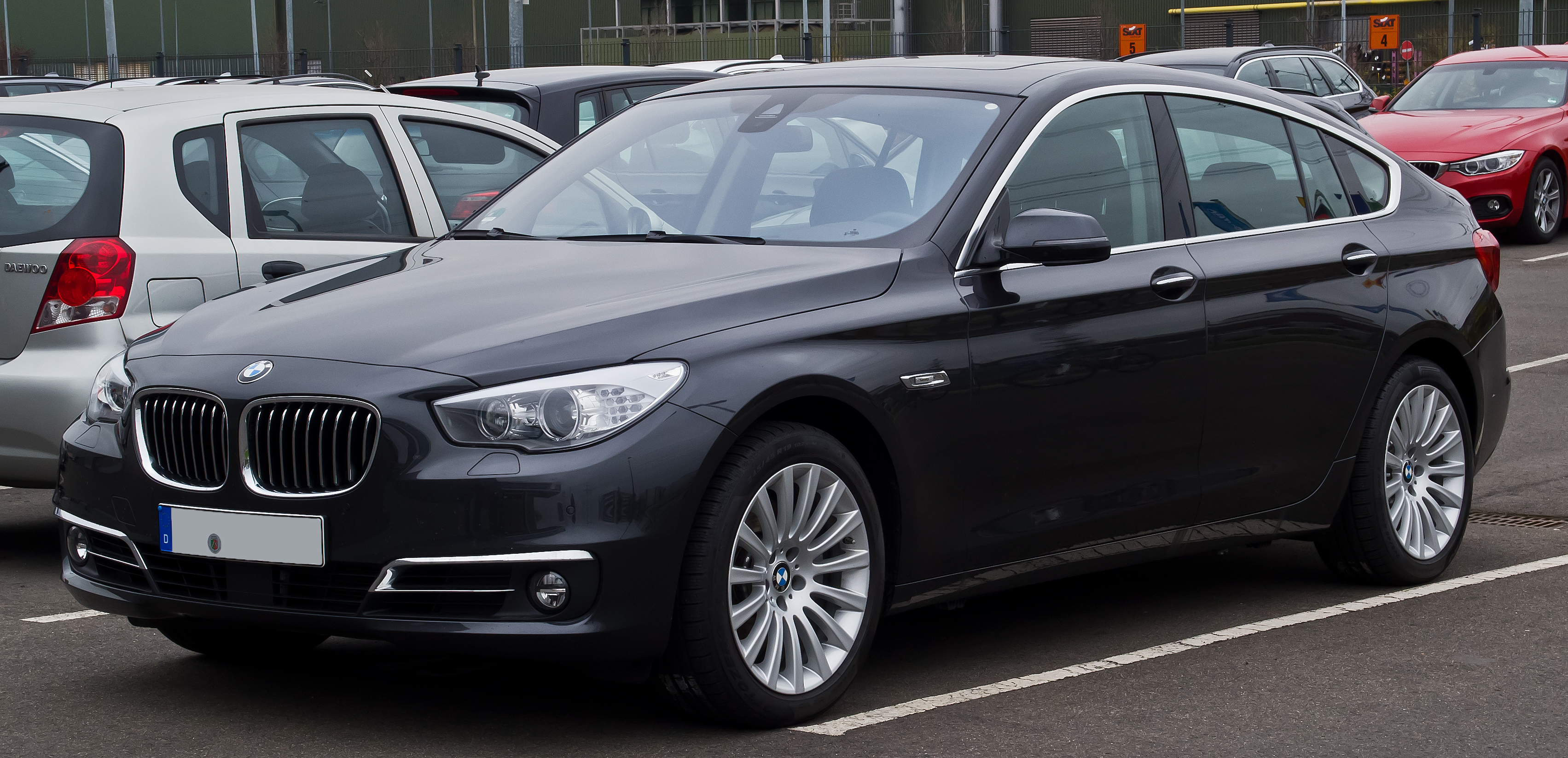 BMW 530d xDrive GT Luxury Line (F07, Facelift)